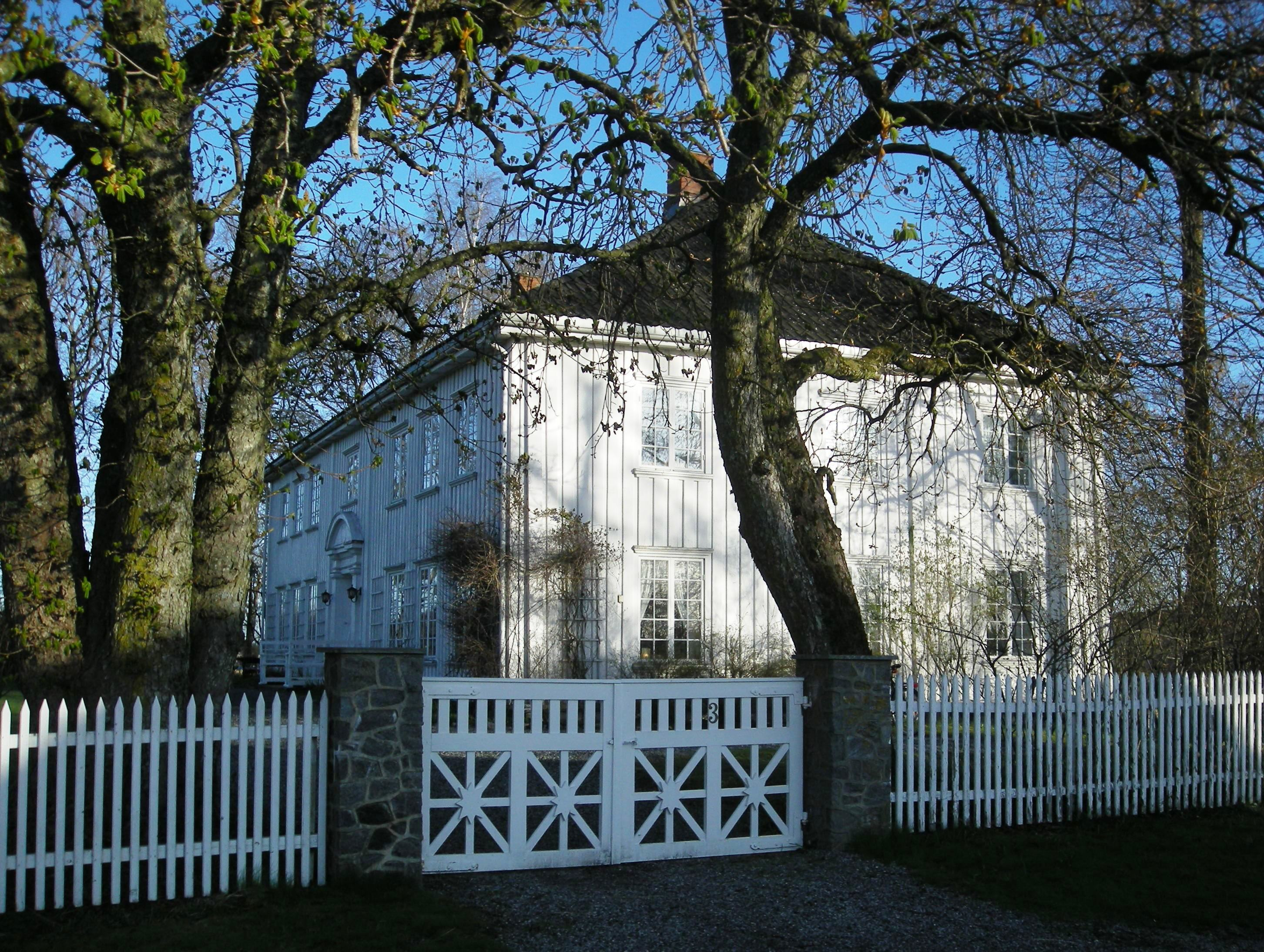 Kråkstad parsonage, Ski